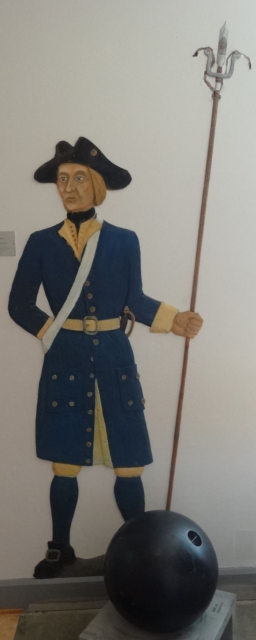 Styckjunkare, swedish artillery officer in early 18th century. At his foot is a 200-pound grenade. From exhibition at Nya Älvsborg fortress museum.